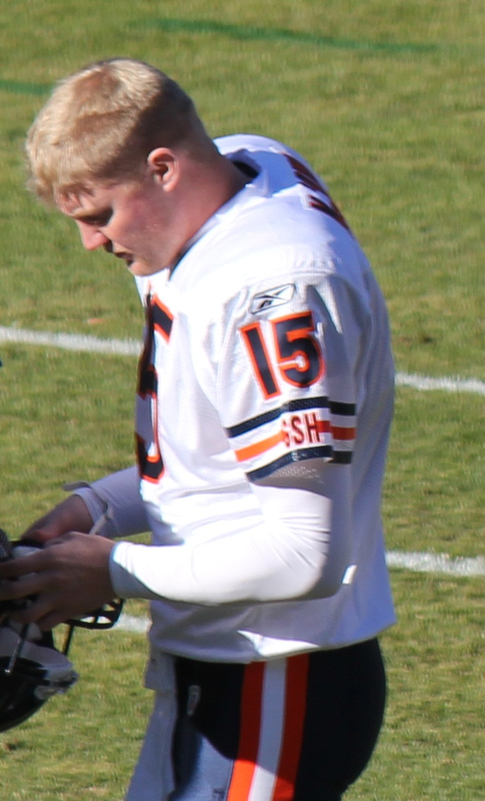 Josh McCown, a National Football League player.